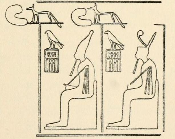 Drawing by Percy Newberry of a cylinder seal of king Djer, third pharaoh of the first dynasty of Egypt.